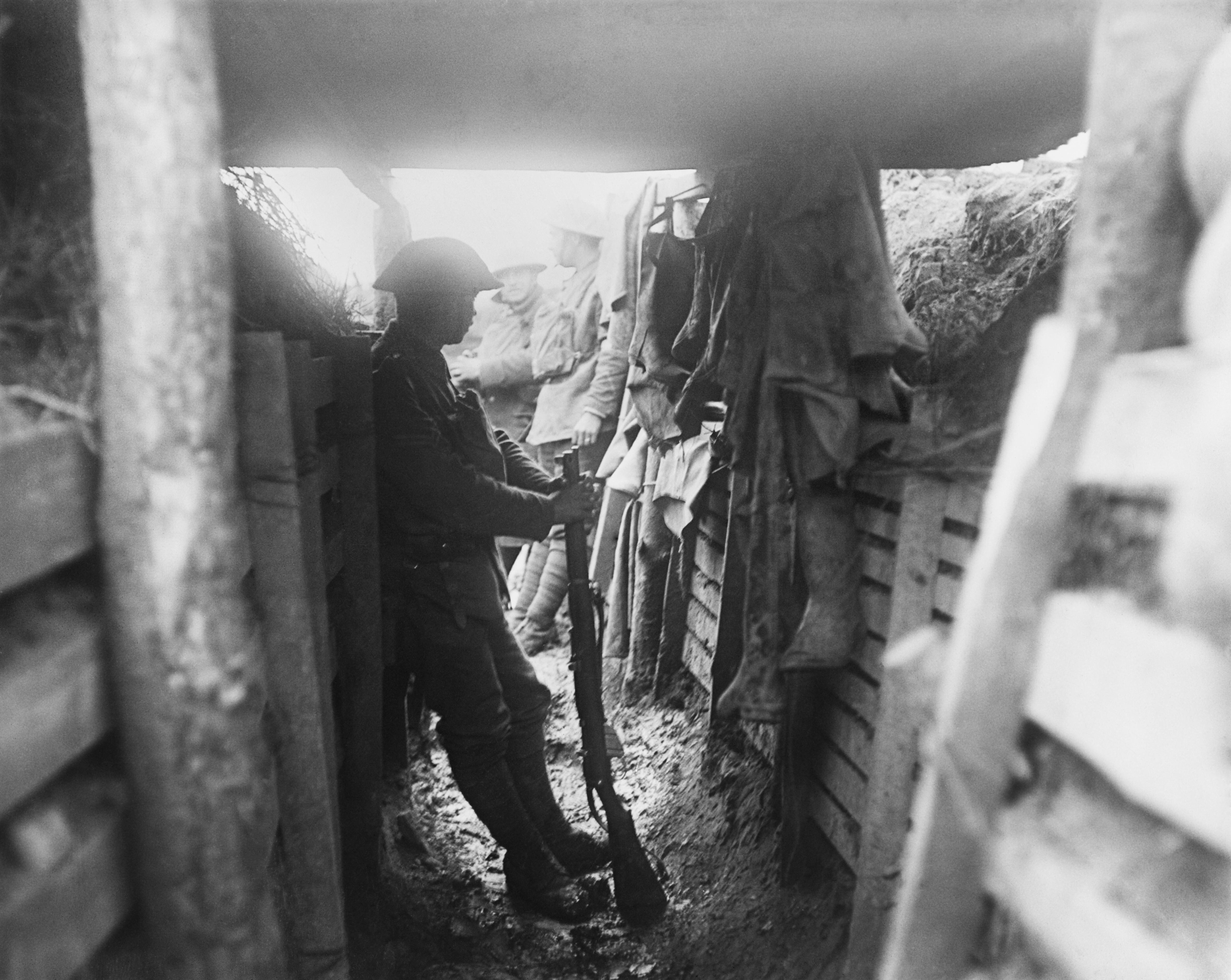 A soldier of the 1/7th Battalion, King's Liverpool Regiment, part of 165th Brigade, 55th Division, in a covered section of trench on the front line of a sector north of the La Bassee Cambrin Road, 15 March 1918.